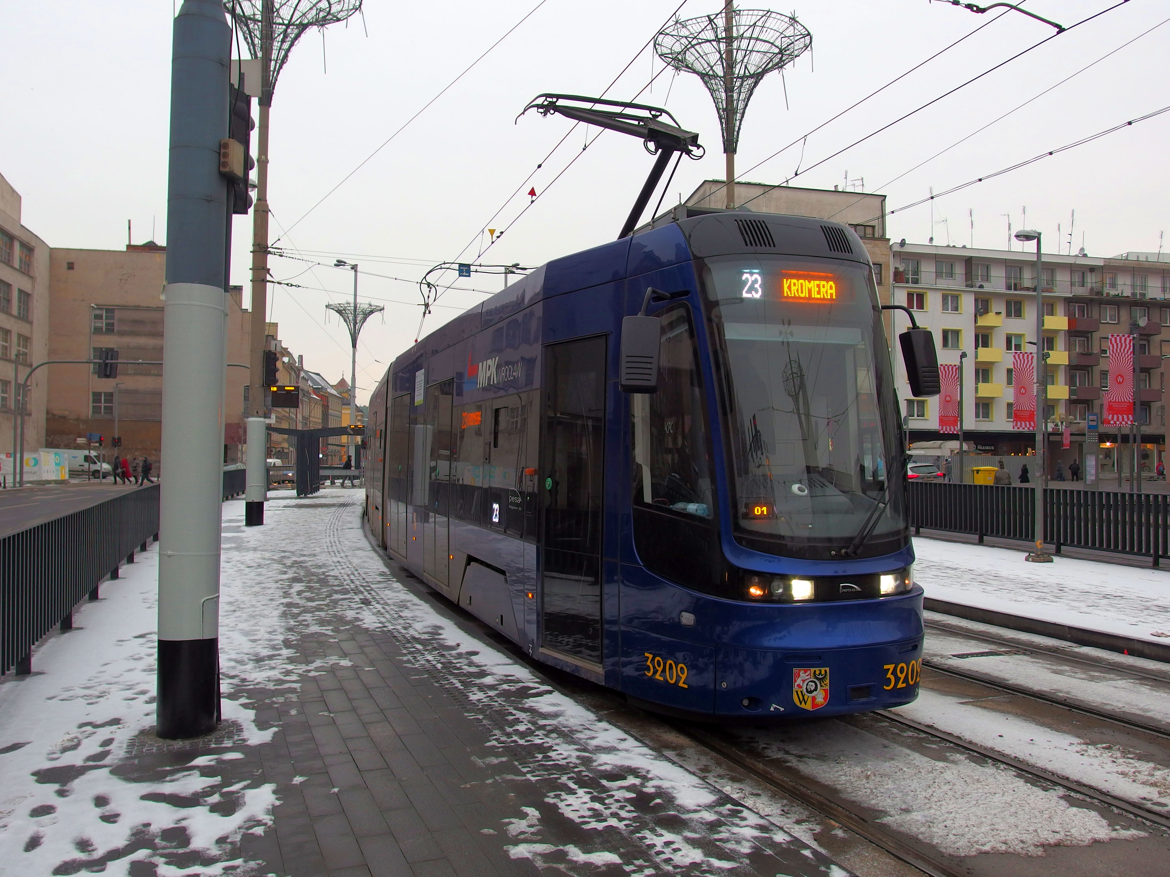 Pesa Twist on Świdnicka tram stop in Wrocław.